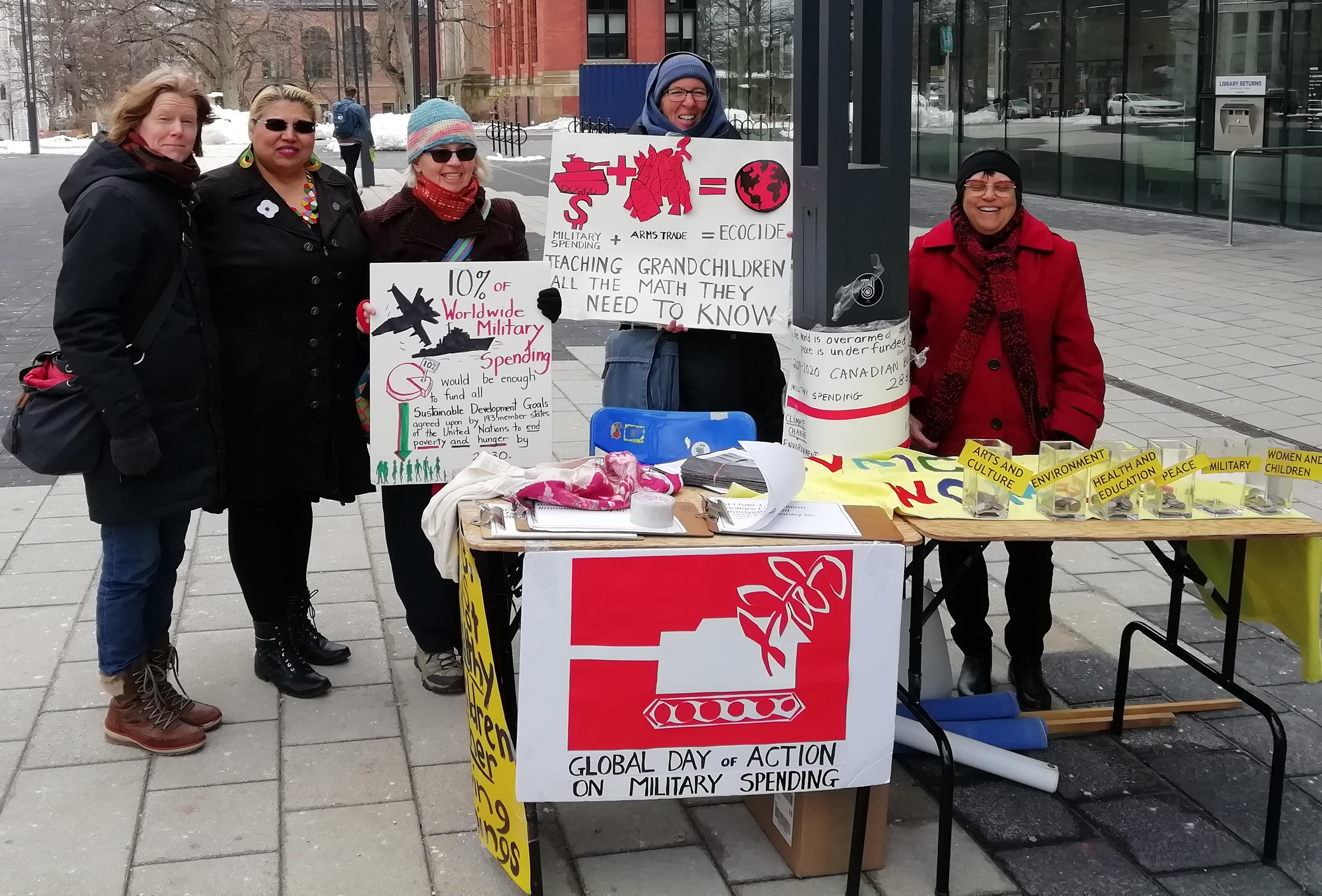 As part of IPB's Global Days of Action on Military Spending, peace activists gathered in Halifax, Canada.